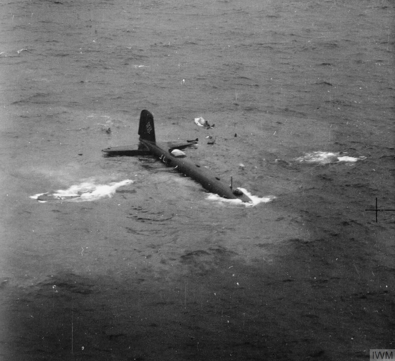 A German Focke-Wulf Fw 200C Kondor of KG 40 sinking in the Atlantic Ocean west of Ireland, after being shot down by a Lockheed Hudson Mark V of No. 233 Squadron RAF. Original description: "A Focke-Wulf Fw 200 Kondor sinking in the Atlantic Ocean west of Ireland, after being shot down by a Lockheed Hudson Mark V of No. 233 Squadron RAF based at Aldergrove, County Antrim, while trying to attack a convoy. This oblique aerial photograph was taken from the victorious Hudson (AM536) and shows the crew of the Kondor swimming for their liferaft which is inflating to the right of the tailplane." See also : File:Royal Air Force Coastal Command, 1939-1945. C1989.jpg File:Royal Air Force 1939-1945- Coastal Command C1987.jpg